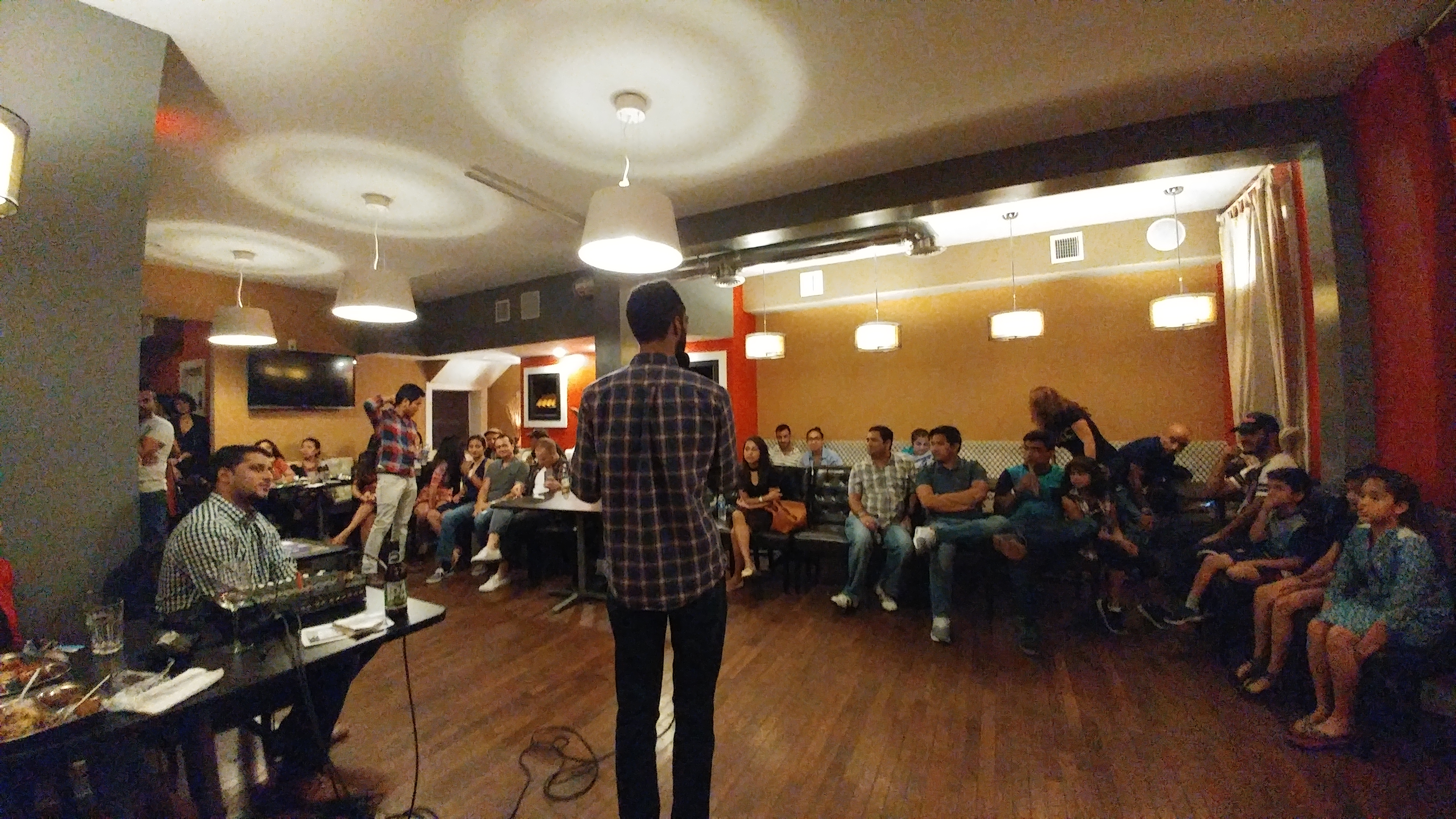 Open mic september 2017